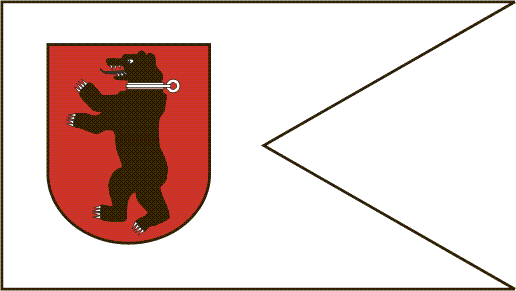 Historic flag of Samogitia. Drawing created by Theodore Kloba.